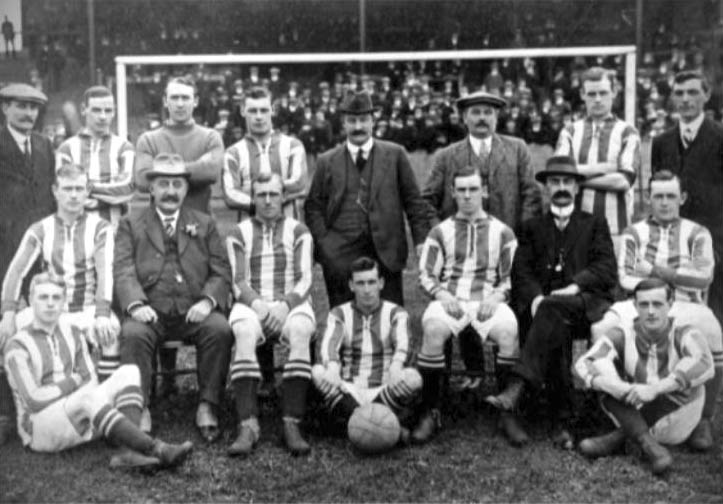 West Bromwich Albion F.C. 1912 FA Cup finalists team lineup